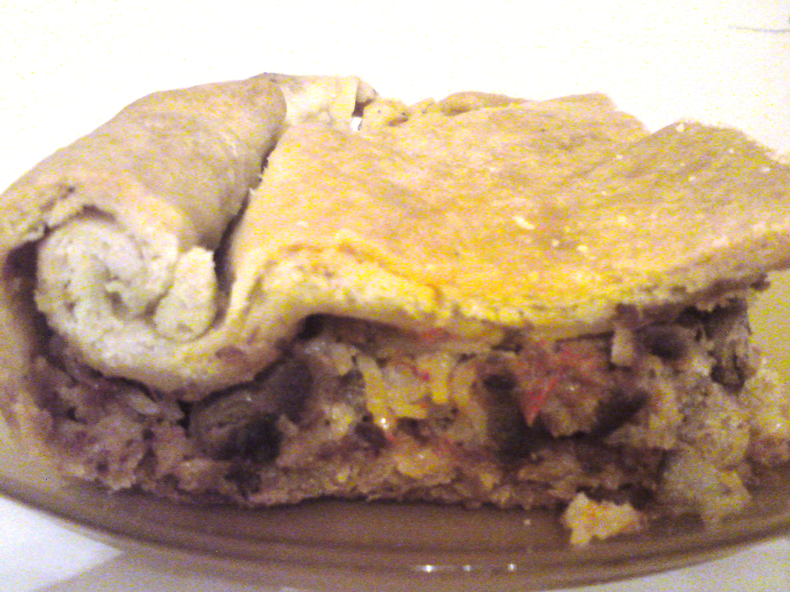 A slice of Kefalonian kreatopita. The dish is exclusive to the island of Kefalonia; main ingredients are meat (pork, veal, lamb or goat), rice, tomato sauce in wine-kneaded pastry.